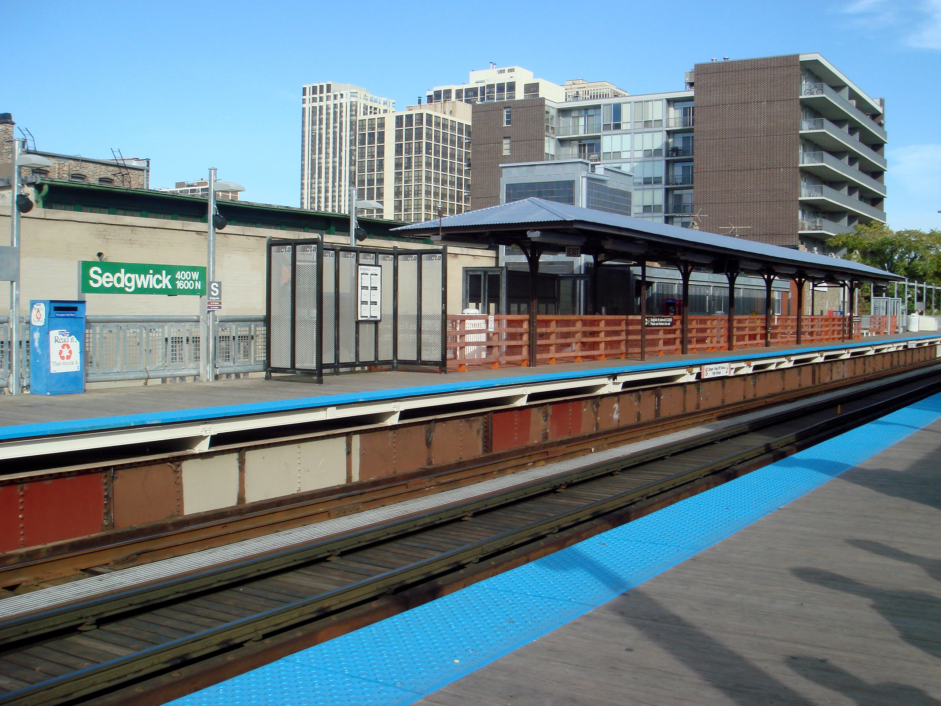 Sedgwick an 'L' station on the Chicago Transit Authority (CTA) Brown Line, with weekday peak time service on Purple Line in Chicago, Illinois